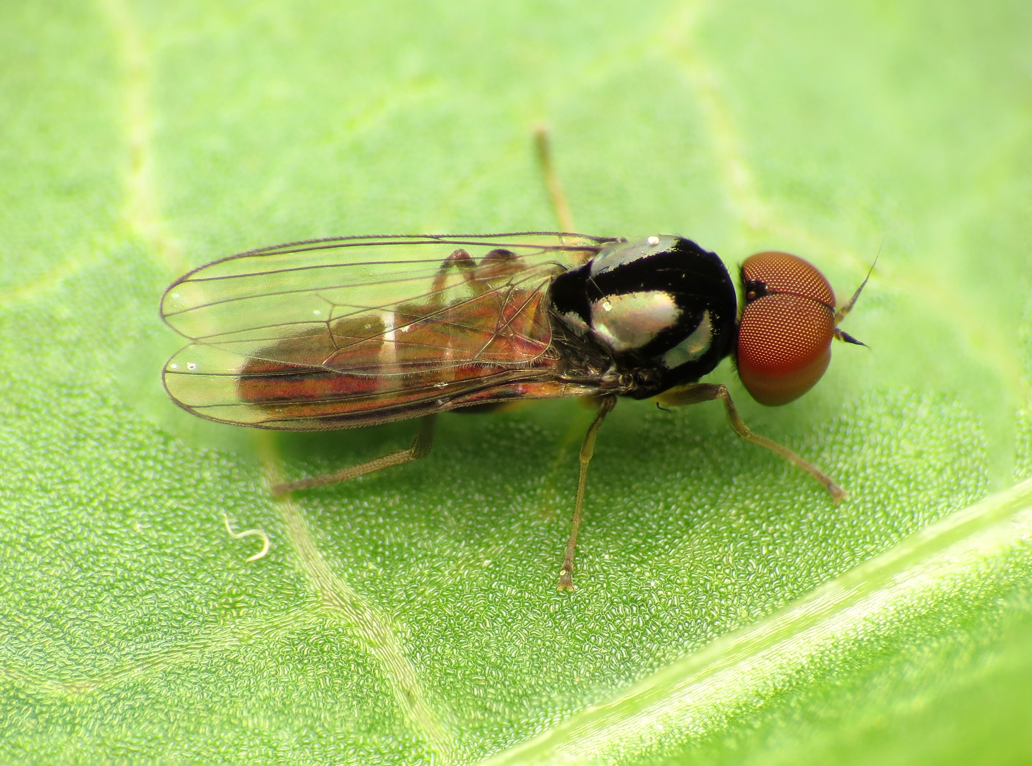 Bertamyia notata. Rock Creek Park, Washington, DC, USA.